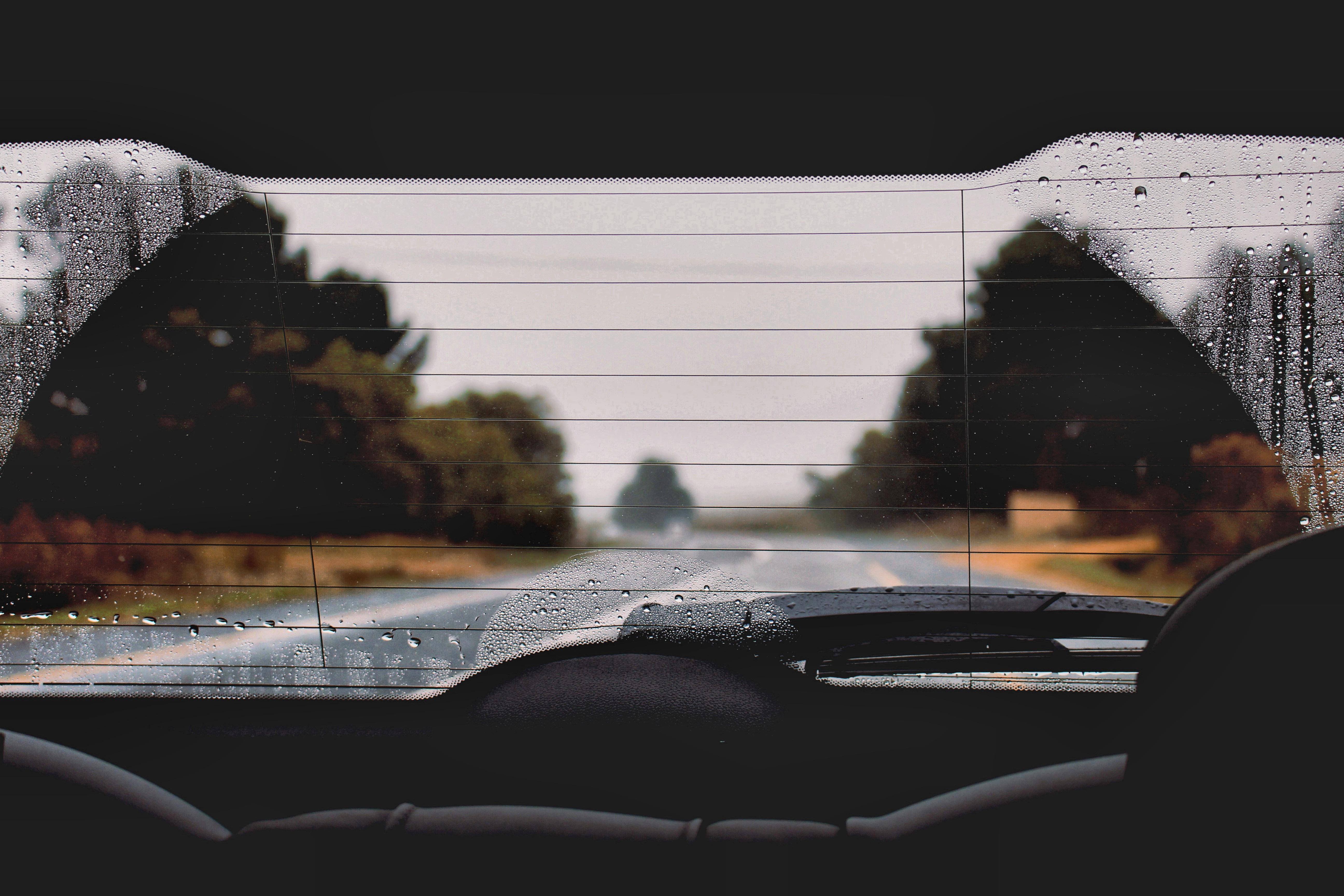 Franschhoek, South Africa